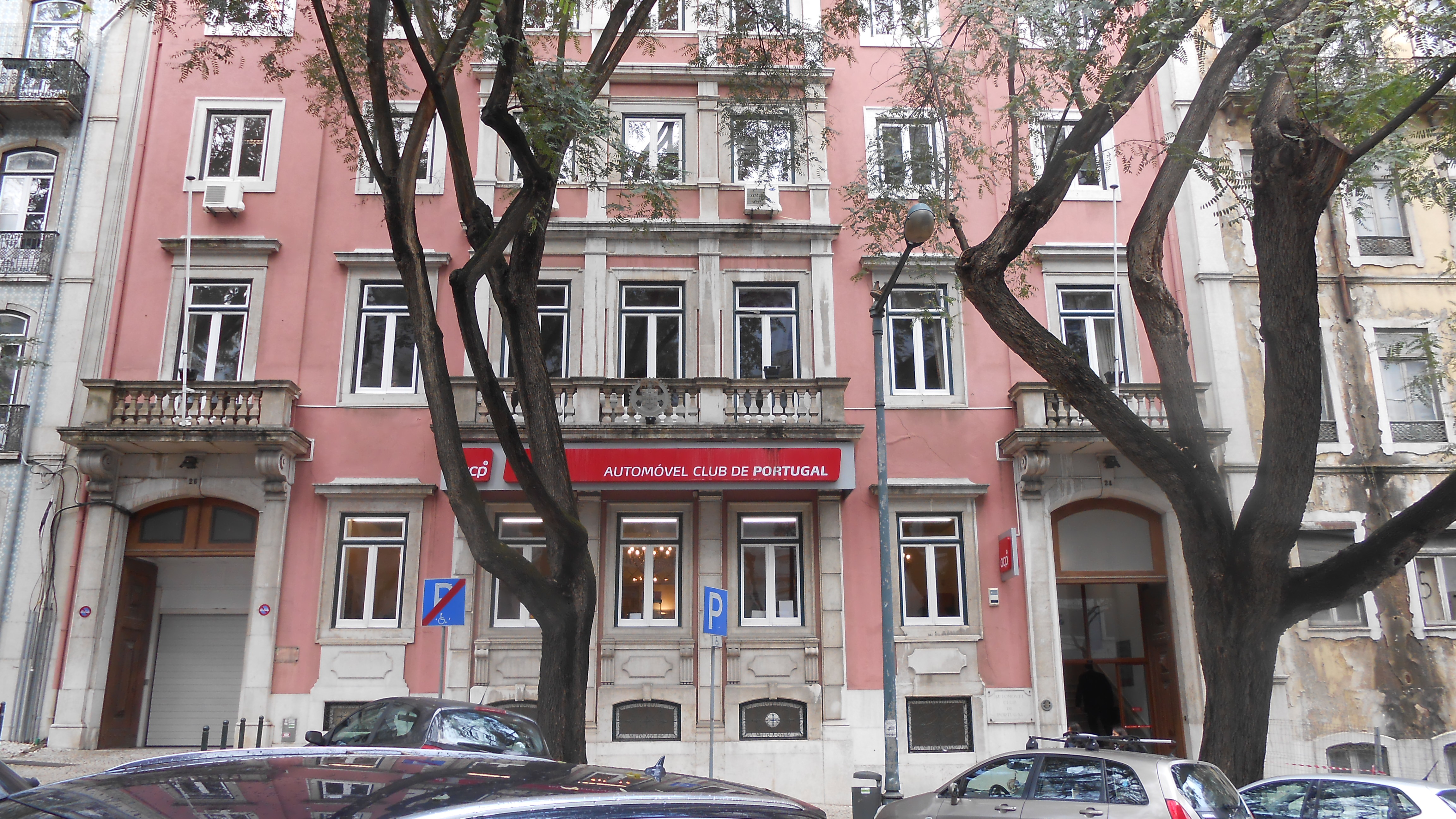 Headquarter of the Automóvel Clube de Portugal in the Rua Rosa Araújo in Lisbon.